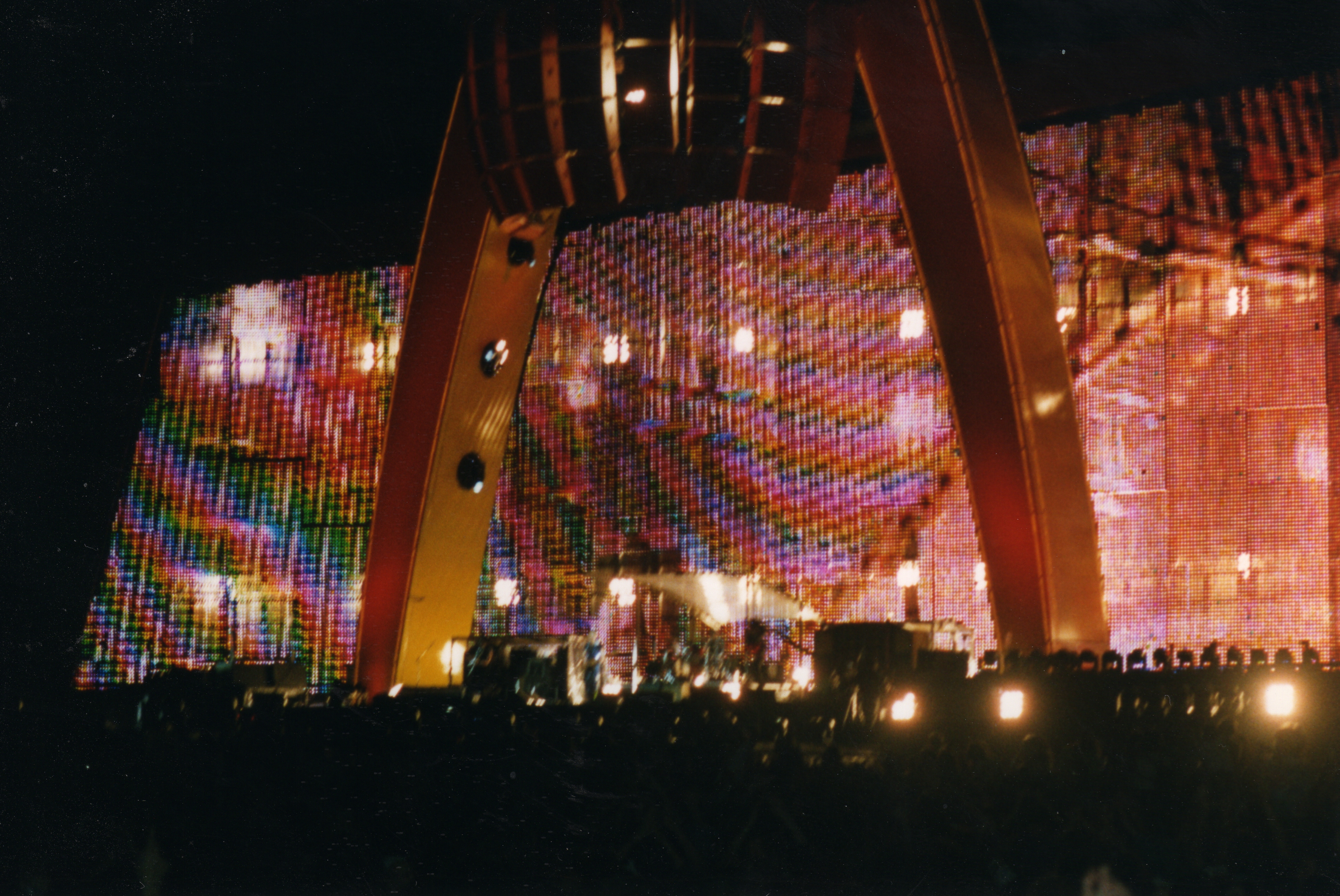 U2 PopMart Tour, Botanic Gardens, Belfast, Northern Ireland, August 1997